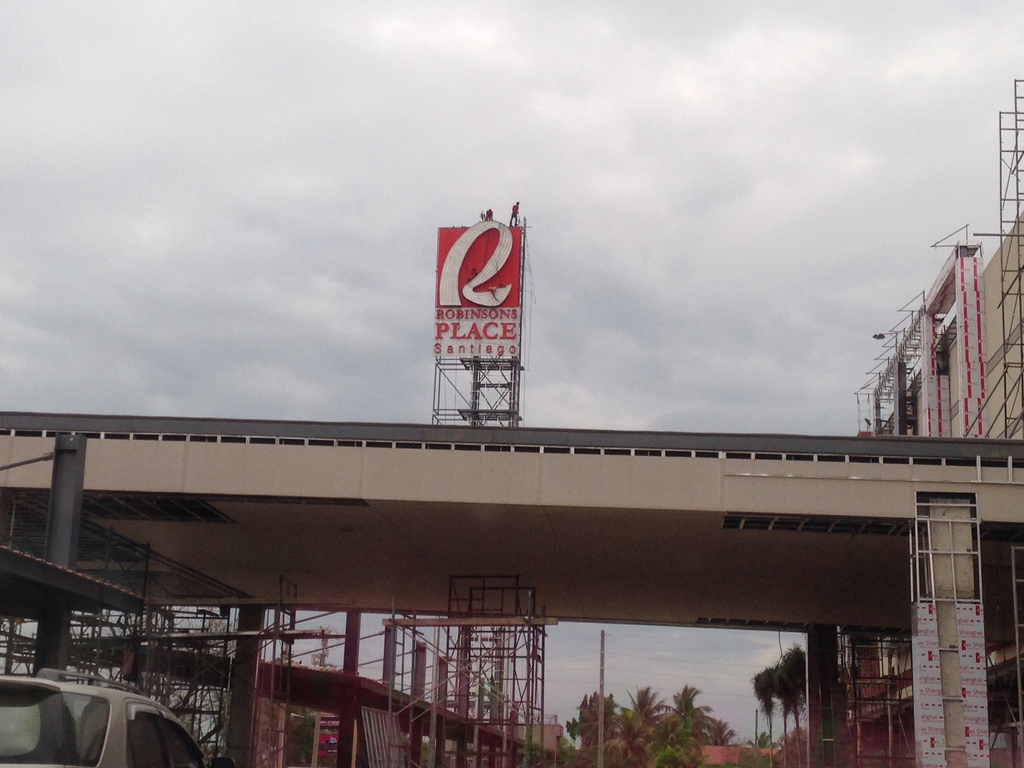 The signage and part of the building of Robinsons Place Santiago located at Barangay Mabini, National Highway, Santiago, Isabela.